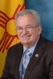 Official Congressional portrait of Rep. Harry Teague (D-NM)